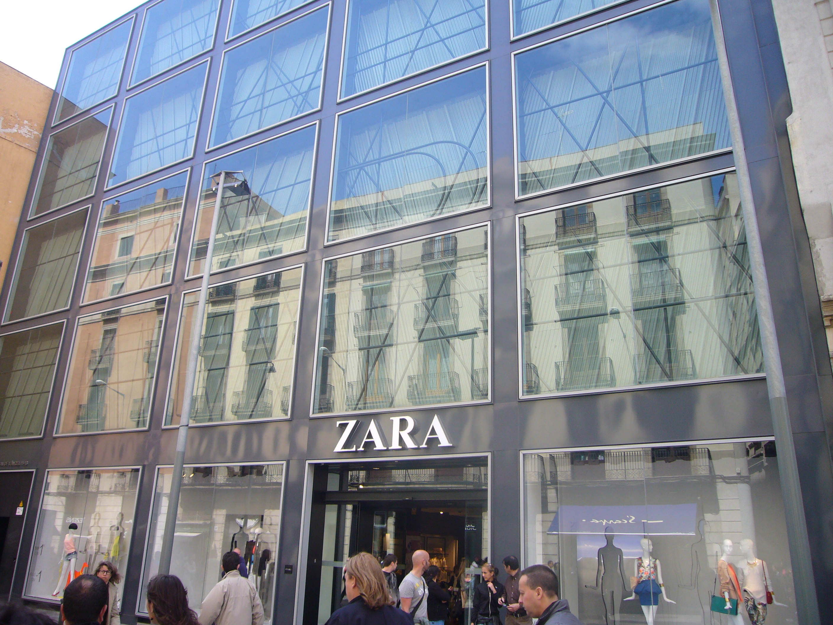 Zara store - Portal de l'Àngel, Barcelona